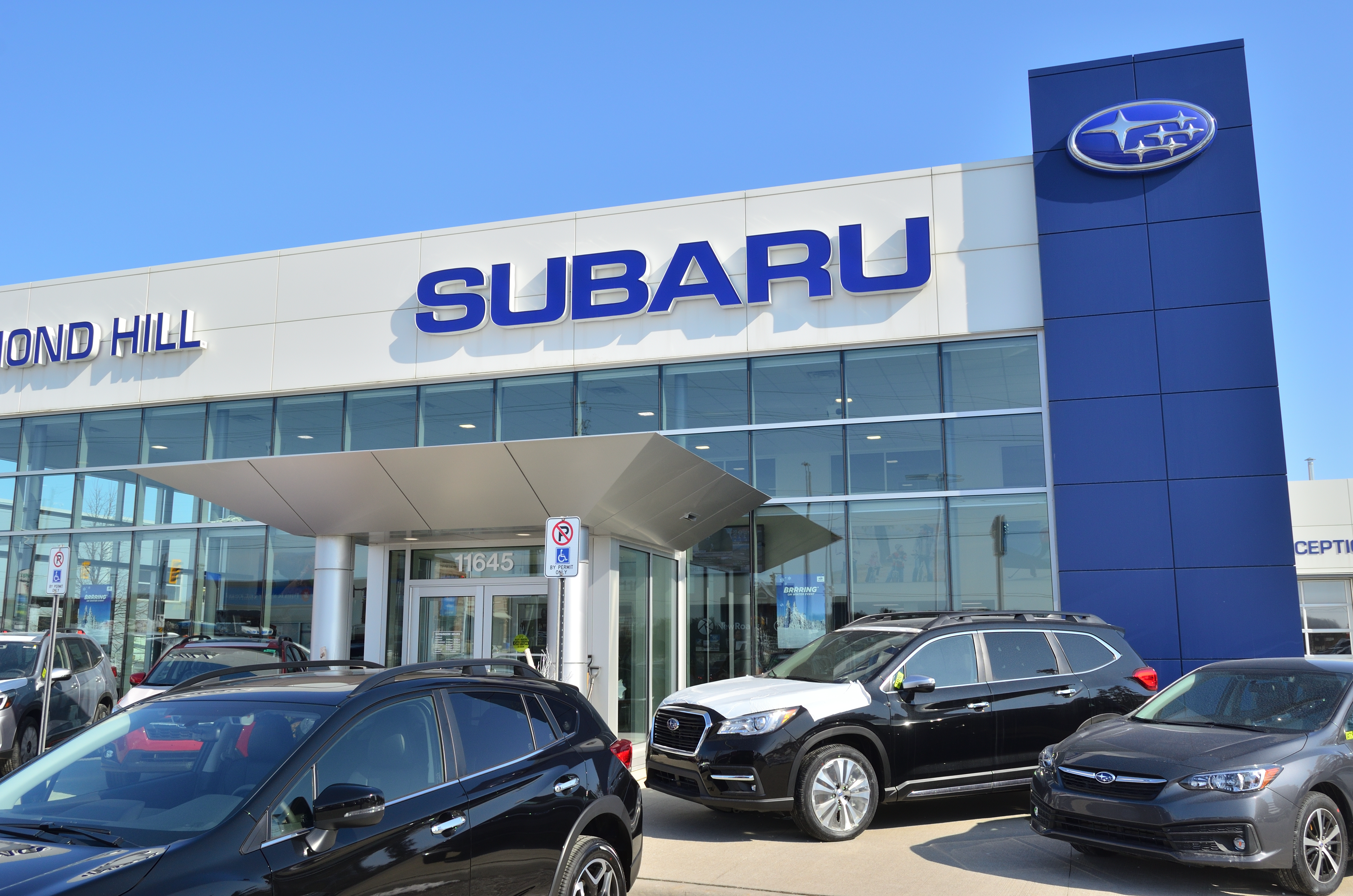 Richmond Hill Subaru - Address: 11645 Yonge St, Richmond Hill, ON L4E 3N8